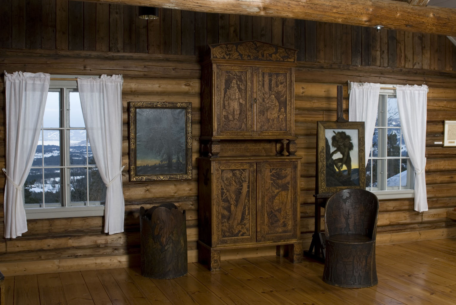 interior of kittelsenmuseet